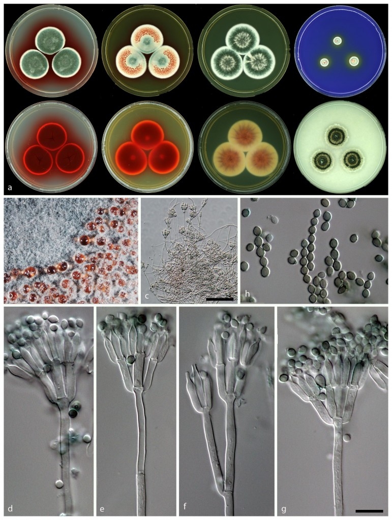 Talaromyces atroroseus, a New Species Efficiently Producing Industrially Relevant Red Pigments